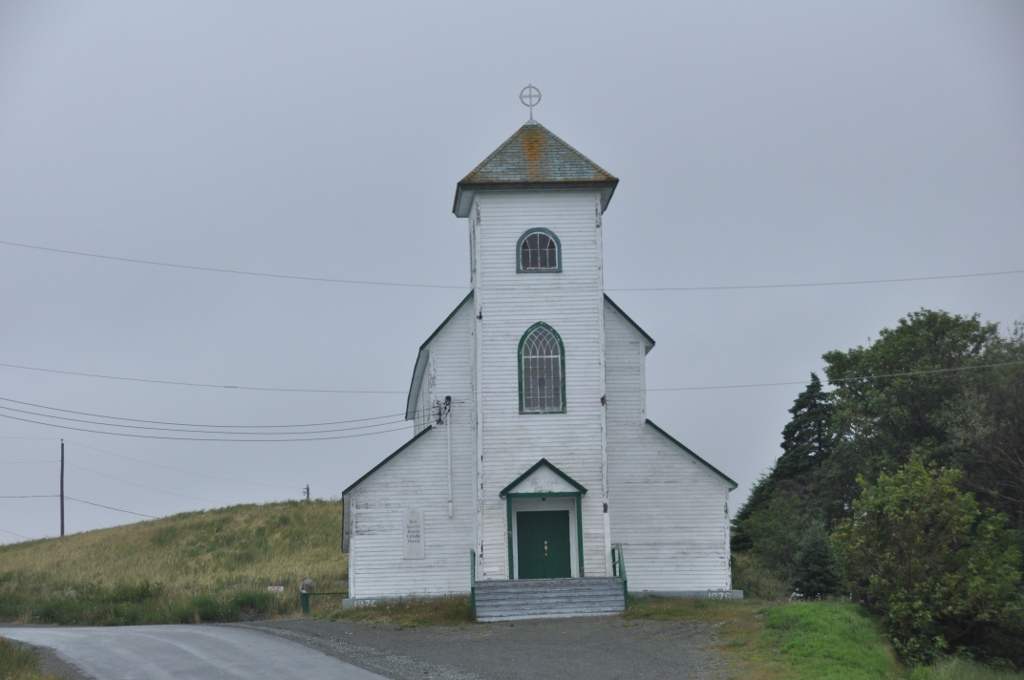 Holy Apostles Church, Renews-Cappahayden, Newfoundland.